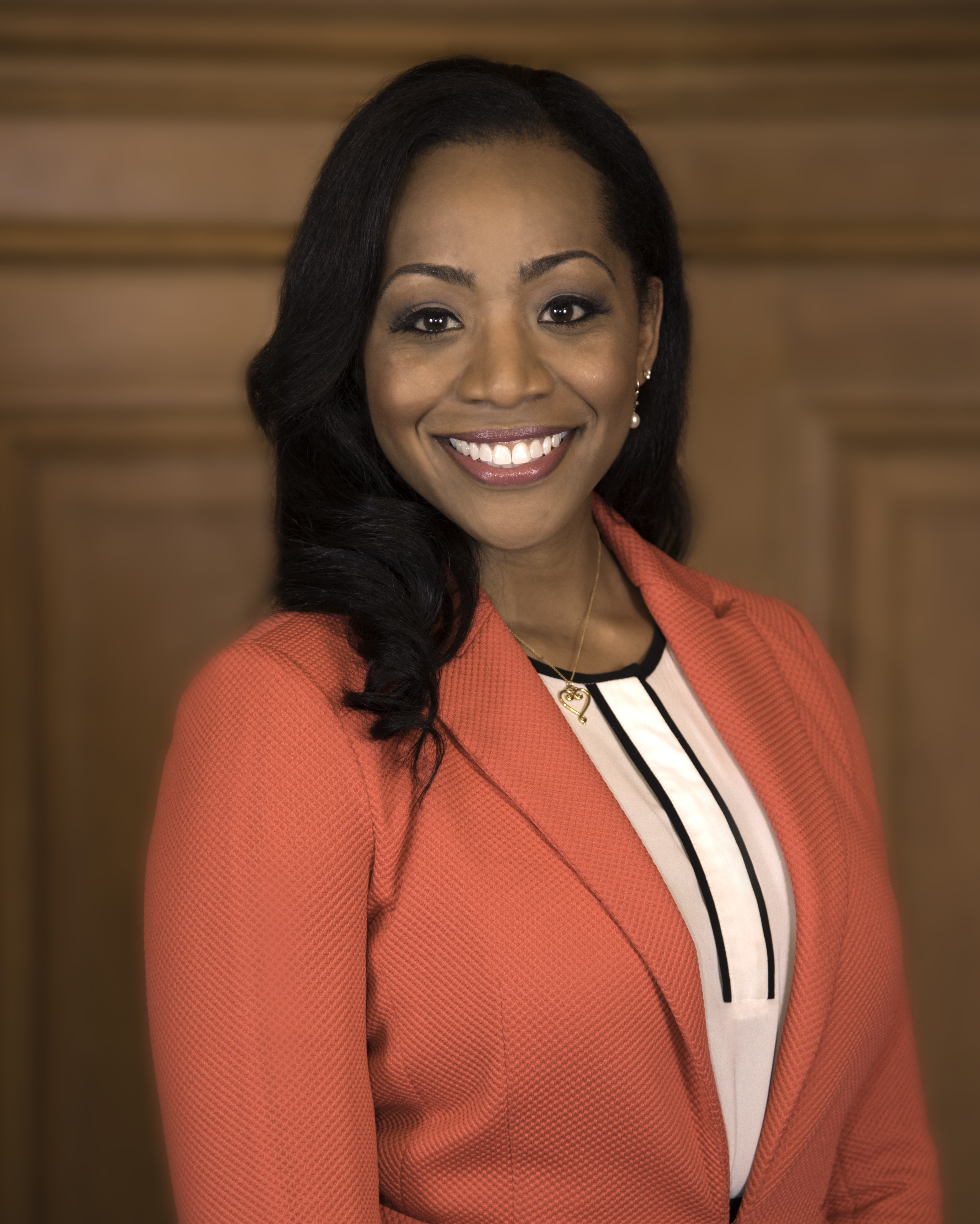 Official portrait of Malia Cohen, Board of Supervisors Member District 10